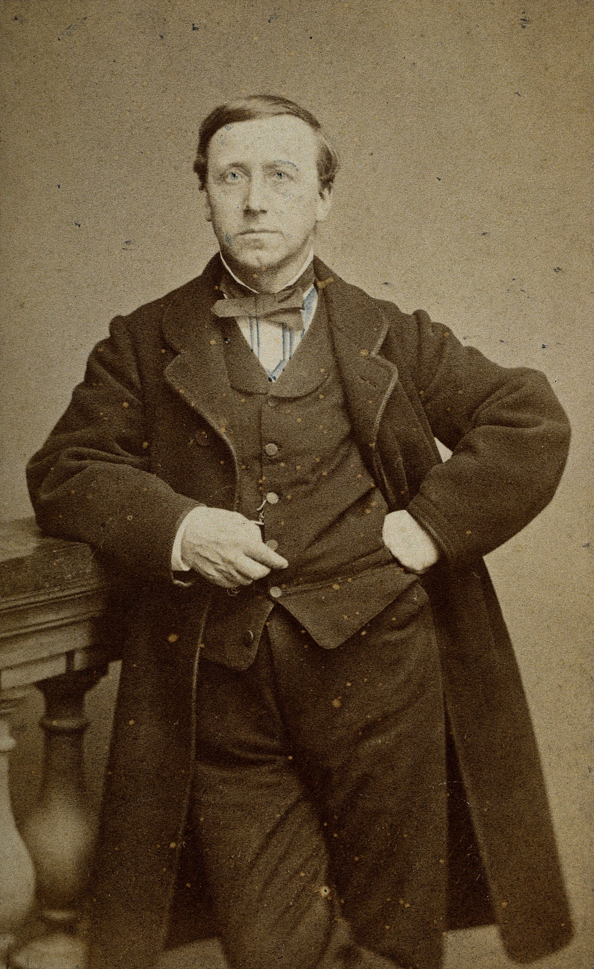 Jules-Emile Planchon. Photograph by Huguet-Moline. Iconographic Collections Keywords: portrait photographs